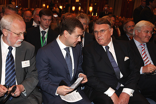 BERLIN. At a meeting with German representatives of political, parliamentary and public circles.